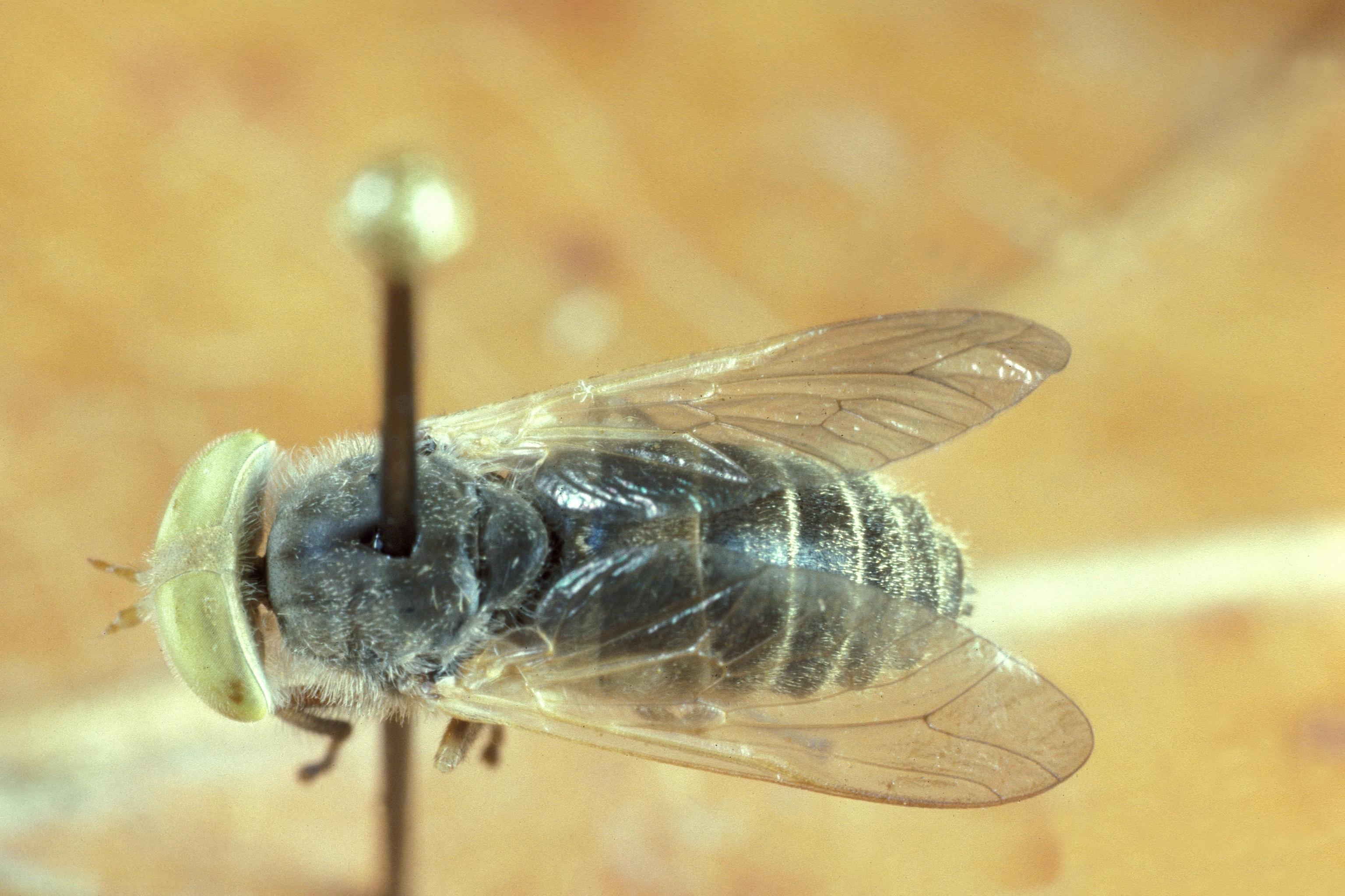 Atylotus ohioensis Hine, 1901 Photographer: Sturgis McKeever, Georgia Southern University, United States Contact: Head of the Department of Biology or Frank French, Georgia Southern University Descriptor: Adult(s) Description: female dorsal view, pinned, collected 17 May 1995, Centerville, Hickman Co., Tennessee. Image taken in: Centerville, Texas, United States